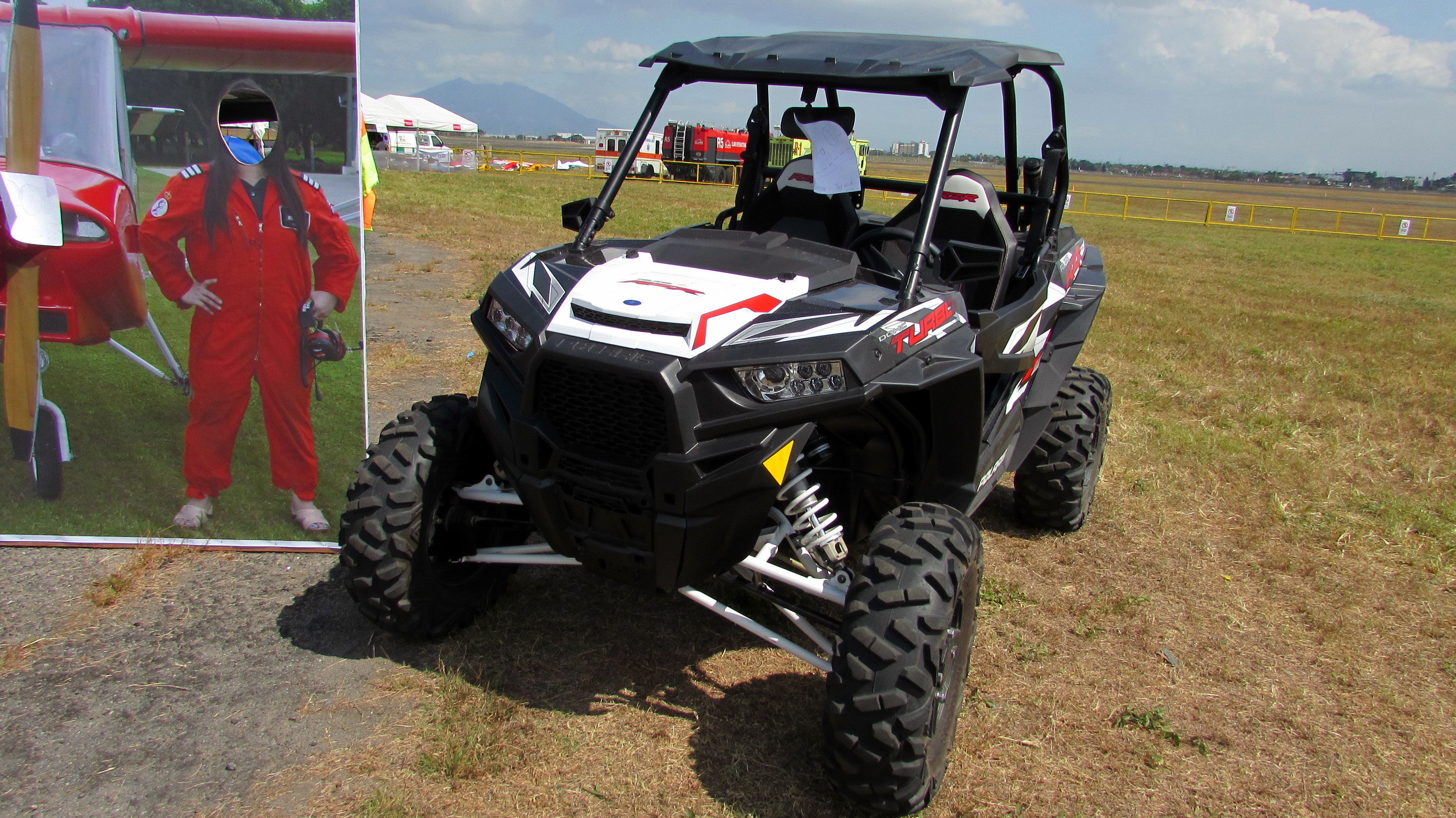 A Polaris RZR All Terrain Vehicle (ATV). Photo taken during the 20th Balloon Fiesta at Clark Air Field in Pampanga.